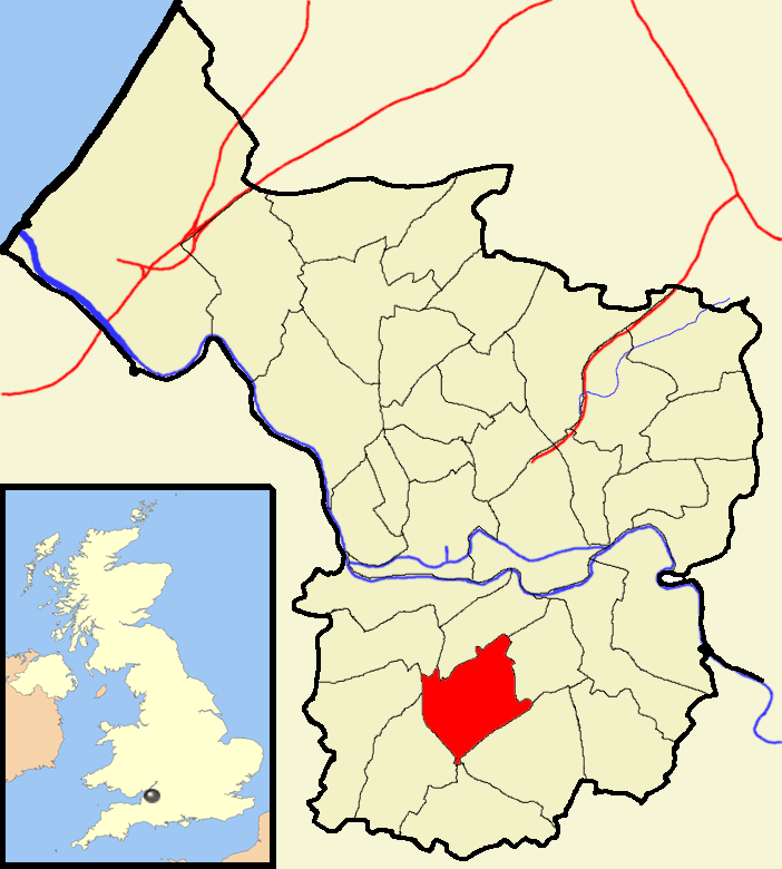 Map showing Filwood within Bristol.